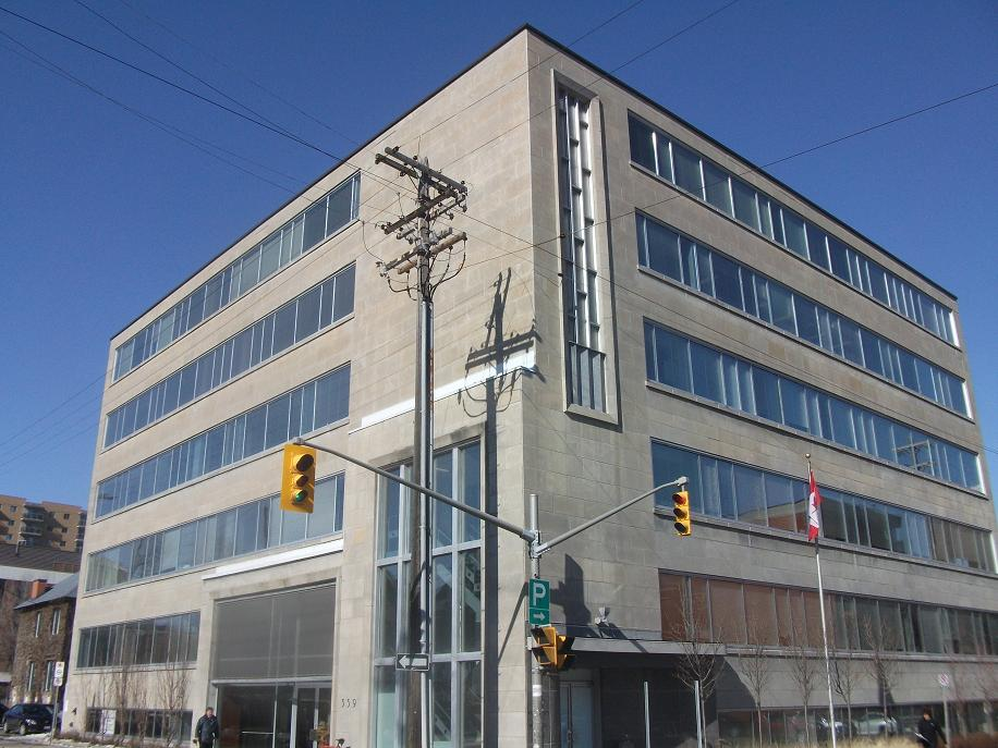 This building at 359 Kent Street in Ottawa, Ontario, houses the headquarters for the EKOS Research polling firm.